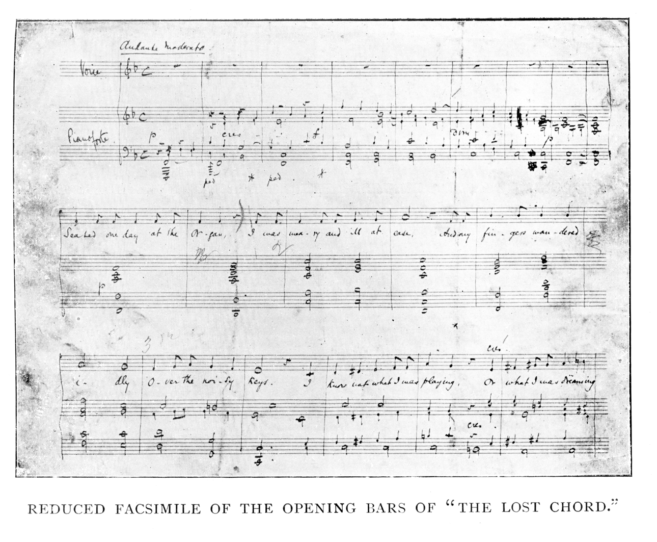 Opening bars of "The Lost Chord by Arthur Sullivan